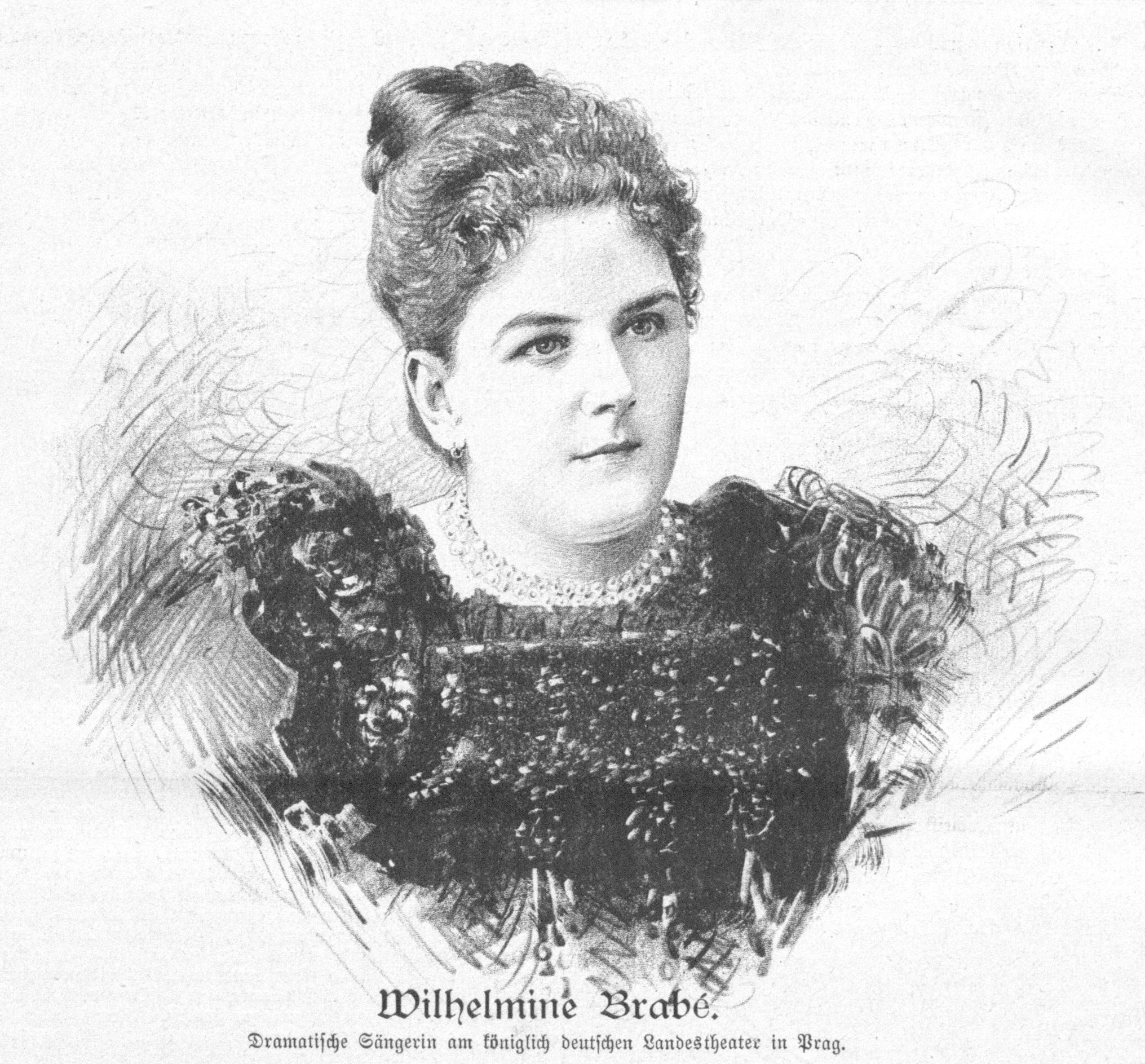 Portrait of Wilhelmine Brabé (1875-??), Austrian opera singer.